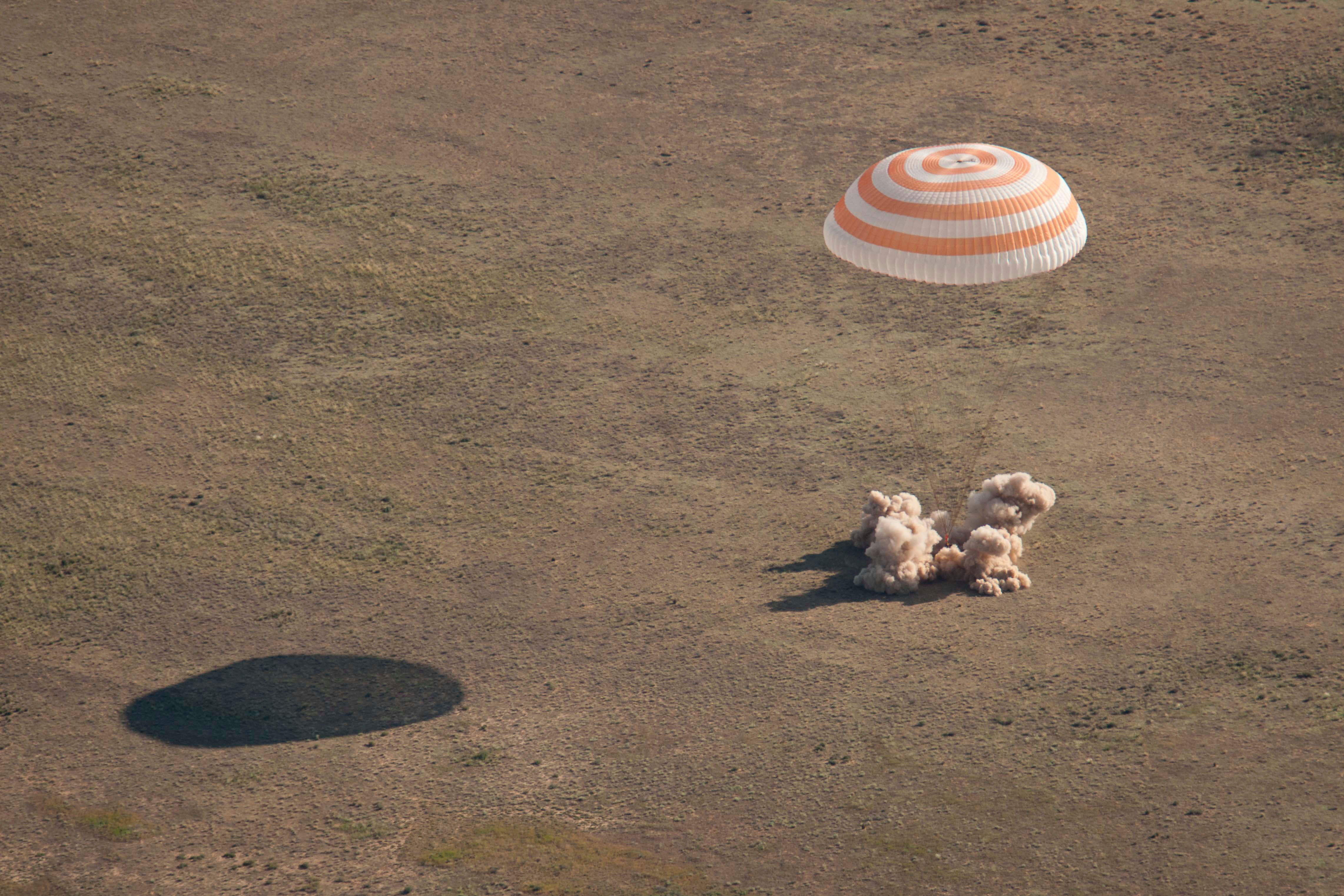 The Soyuz TMA-20 spacecraft is seen as it lands with Expedition 27 Commander Dmitry Kondratyev and Flight Engineers Paolo Nespoli and Cady Coleman in a remote area southeast of the town of Zhezkazgan, Kazakhstan, on Tuesday, May 24, 2011. NASA Astronaut Coleman, Russian Cosmonaut Kondratyev and Italian Astronaut Nespoli are returning from more than five months onboard the International Space Station where they served as members of the Expedition 26 and 27 crews.